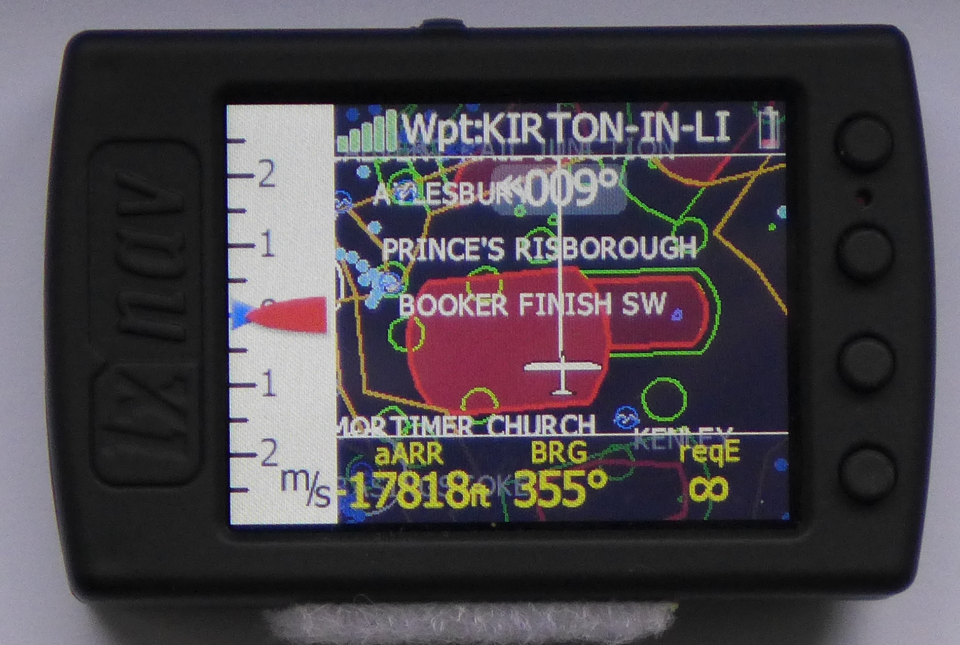 A typical logger used to record flights of sailplanes, hang-gliders and paragliders for competitions and badge claims. It also provides navigational information about the next turn-points and areas of controlled airspace. There is a small variometer on the left-that shows rate of climb